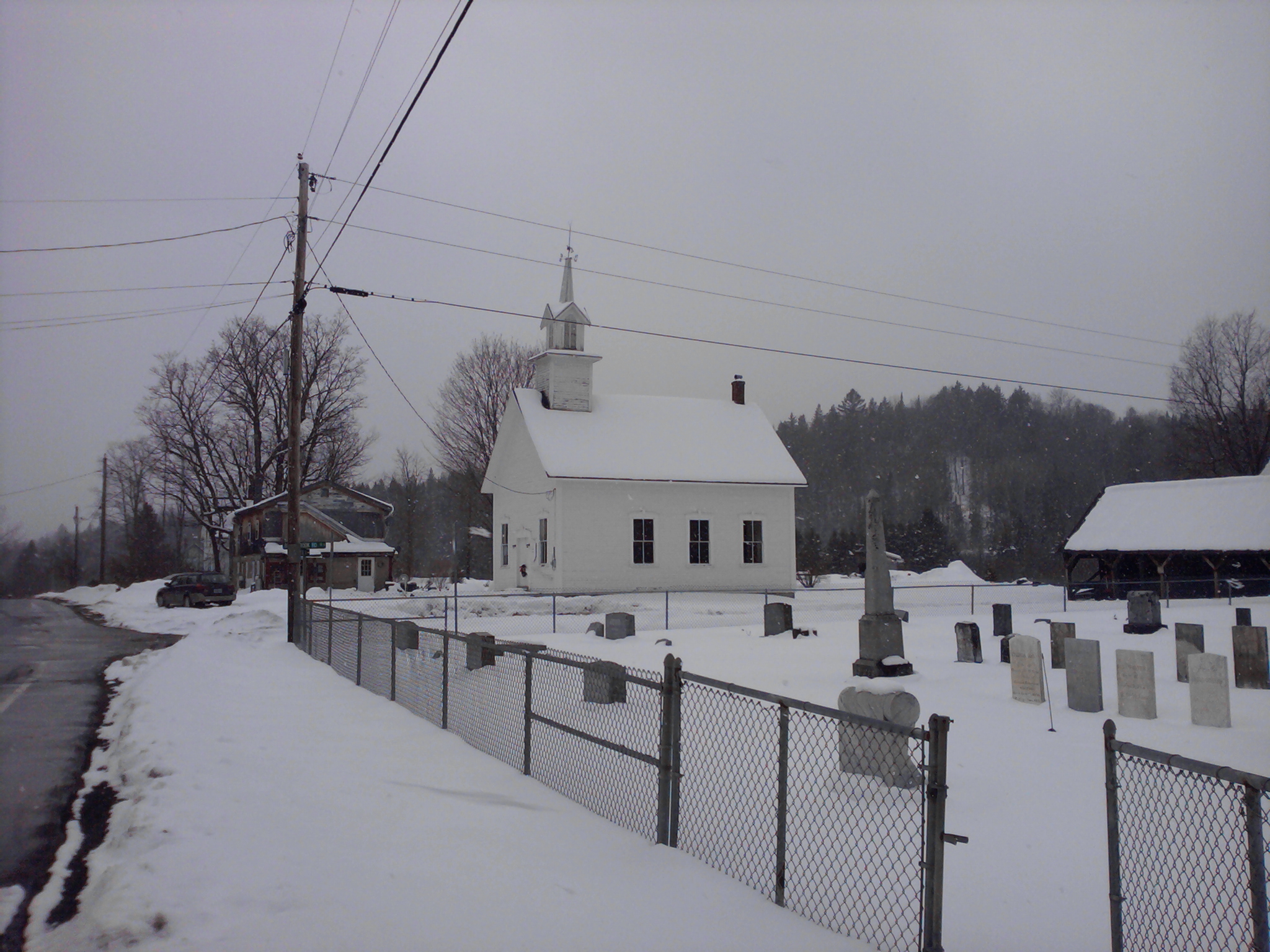 East Haven Church at 1789 VT Rte 114 in East Haven, Vermont -- at intersection of Bean Brook Road and Route 114. East Haven Cemetery in foreground, former grange in background.